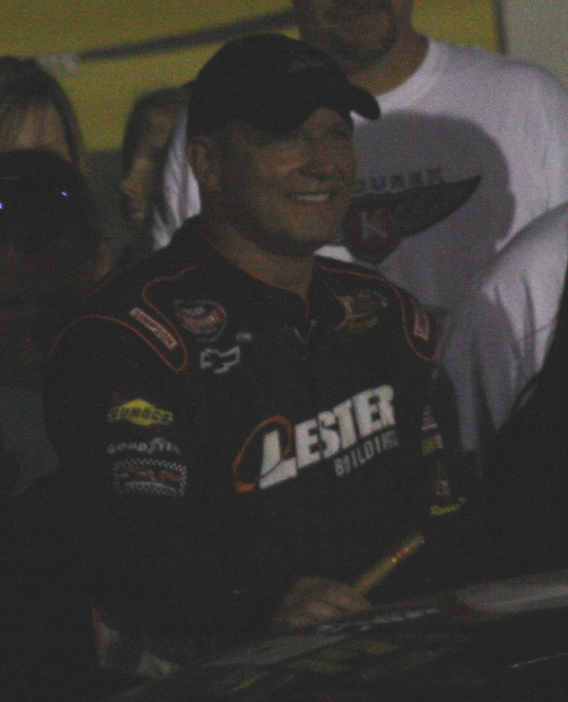 Former NASCAR driver Tim Sauter after winning a Late model race at State Park Speedway.